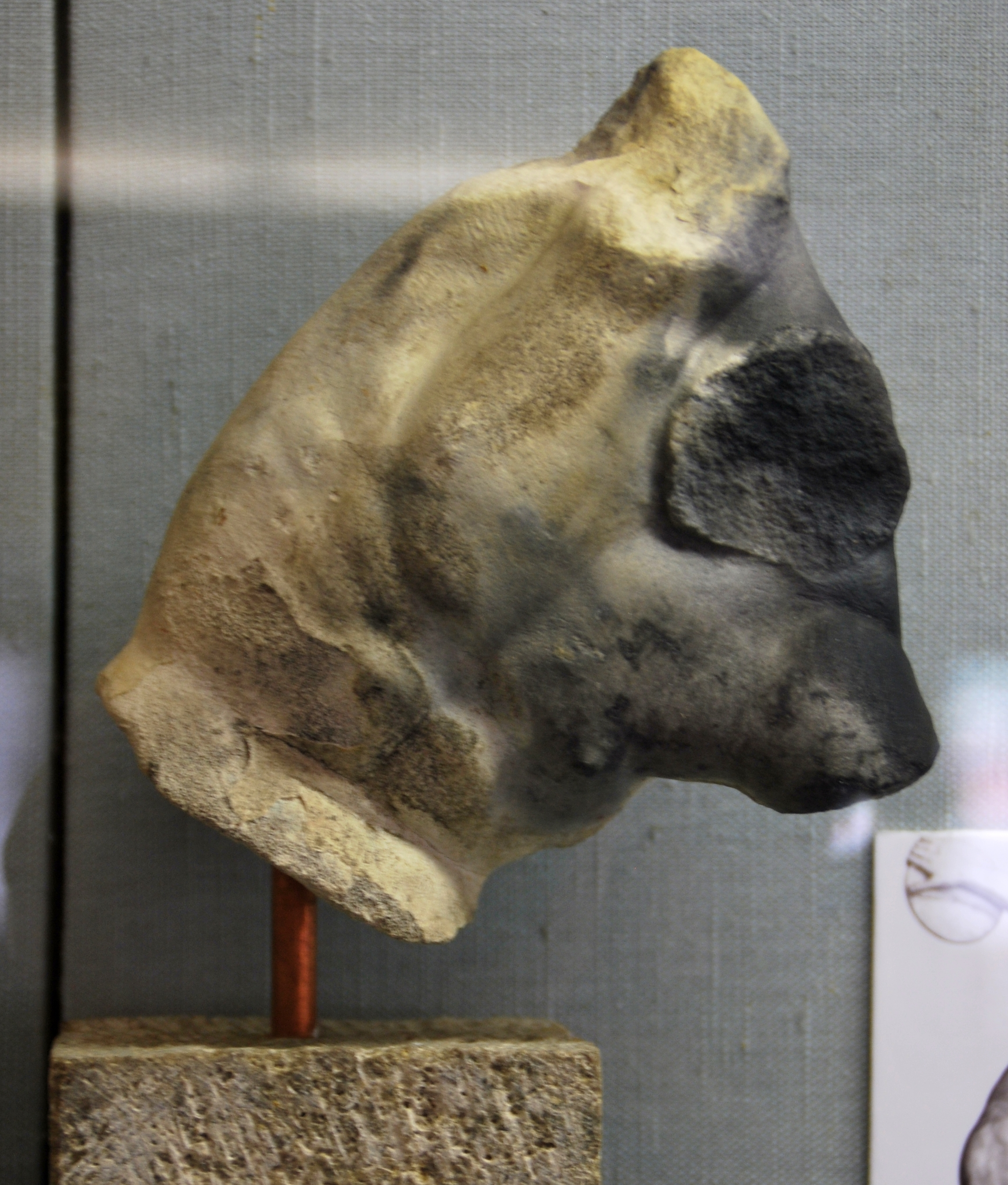 Uploaded Raw material, everybody can work on Names, Categories, Descriptions and so on.. - pictures of descriptions should be deleted after usage.